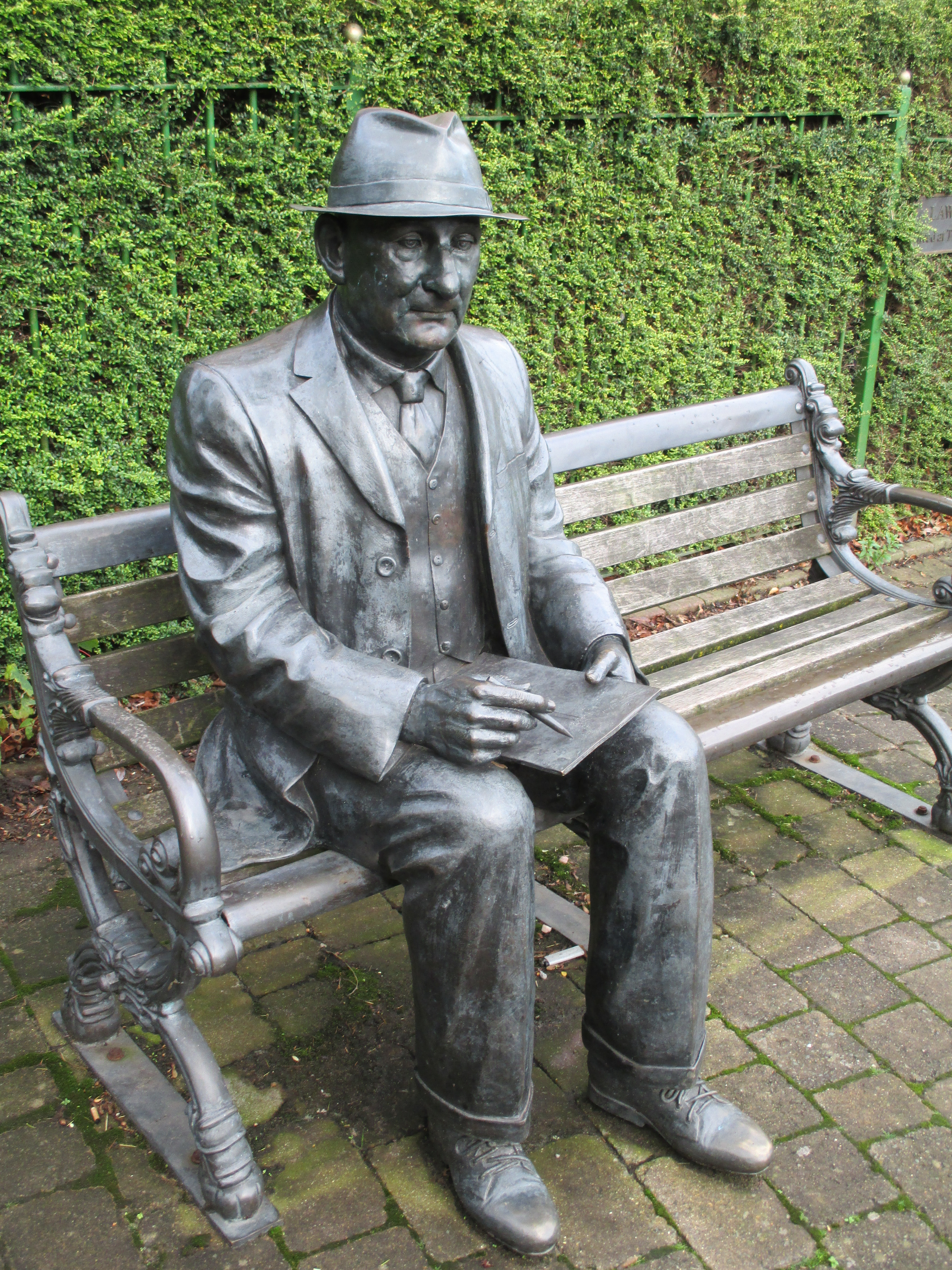 L. S. Lowry memorial, Mottram, Greater Manchester.